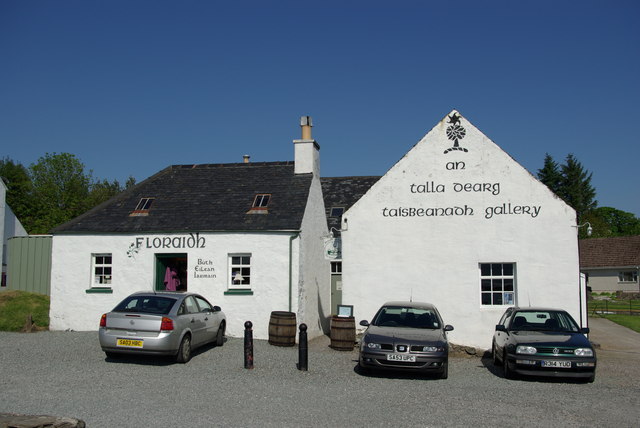 Isleornsay Gallery